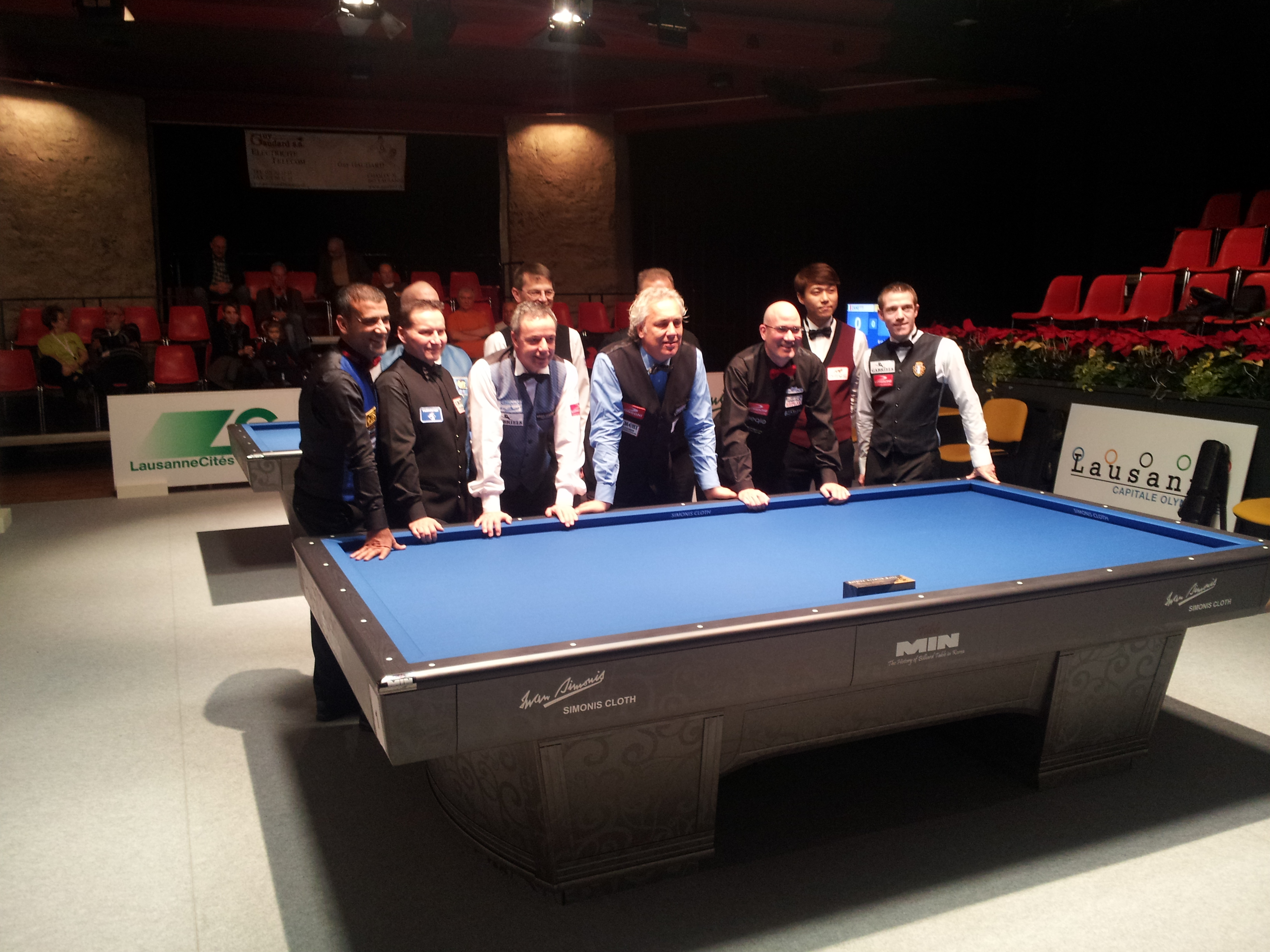 2015 Lausanne Billard Masters in Three-cushion. Venue: Casino de Montbenon, Lausanne-CHE Opening Ceremony: Dick Jaspers (NDL) Martin Horn (DEU) Torbjörn Blomdahl (SWE) Choi Sung-won (KOR) Tayfun Tasdemir (TUR) Eddy Merckx (BEL) Marco Zanetti (ITA) Fernando Couto (CHE) Torsten Danielsson (CHE)